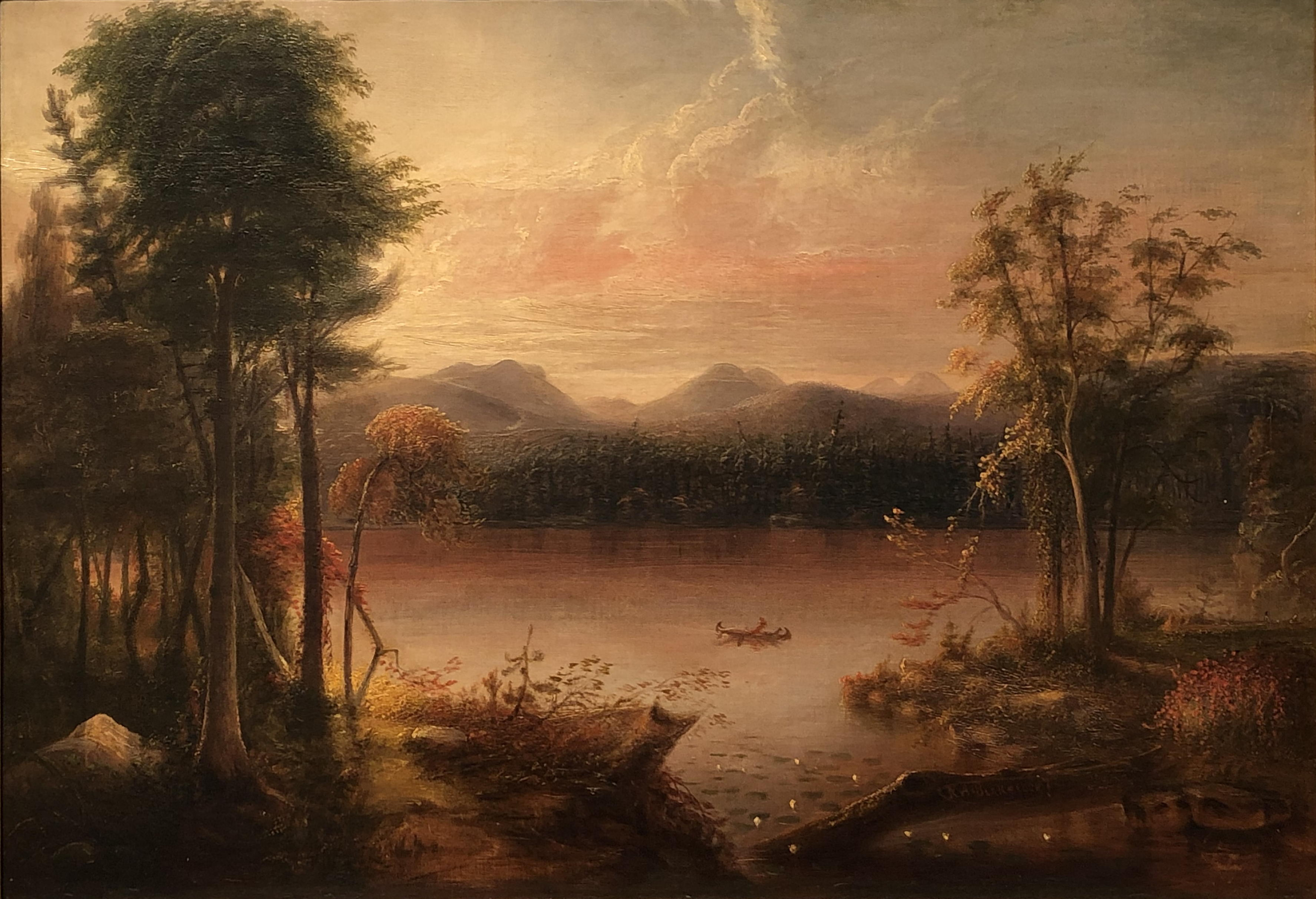 Ralph Albert Blakelock, The Canoe, between 1880 and 1890, Haggin Museum, Stockton, CA.